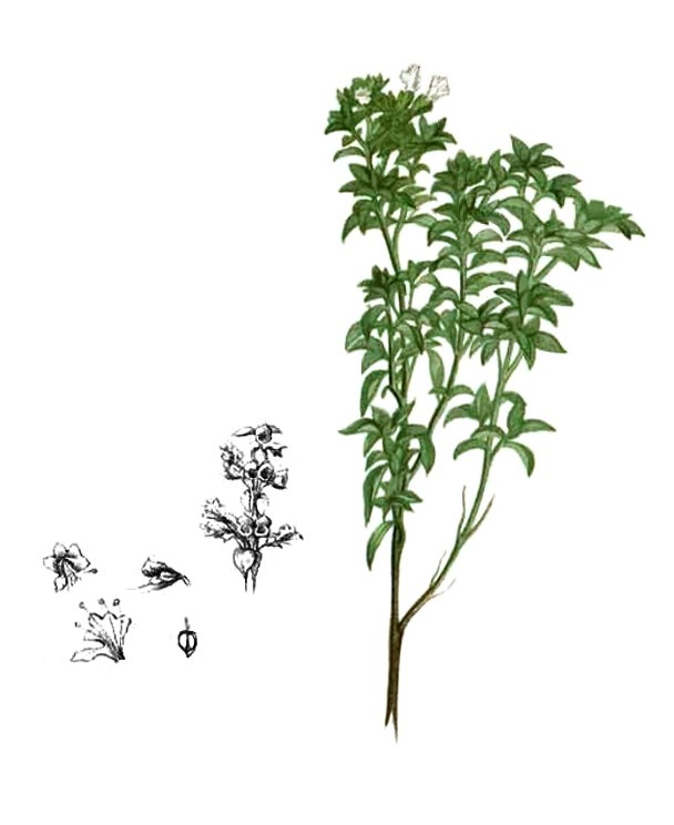 Plate from book